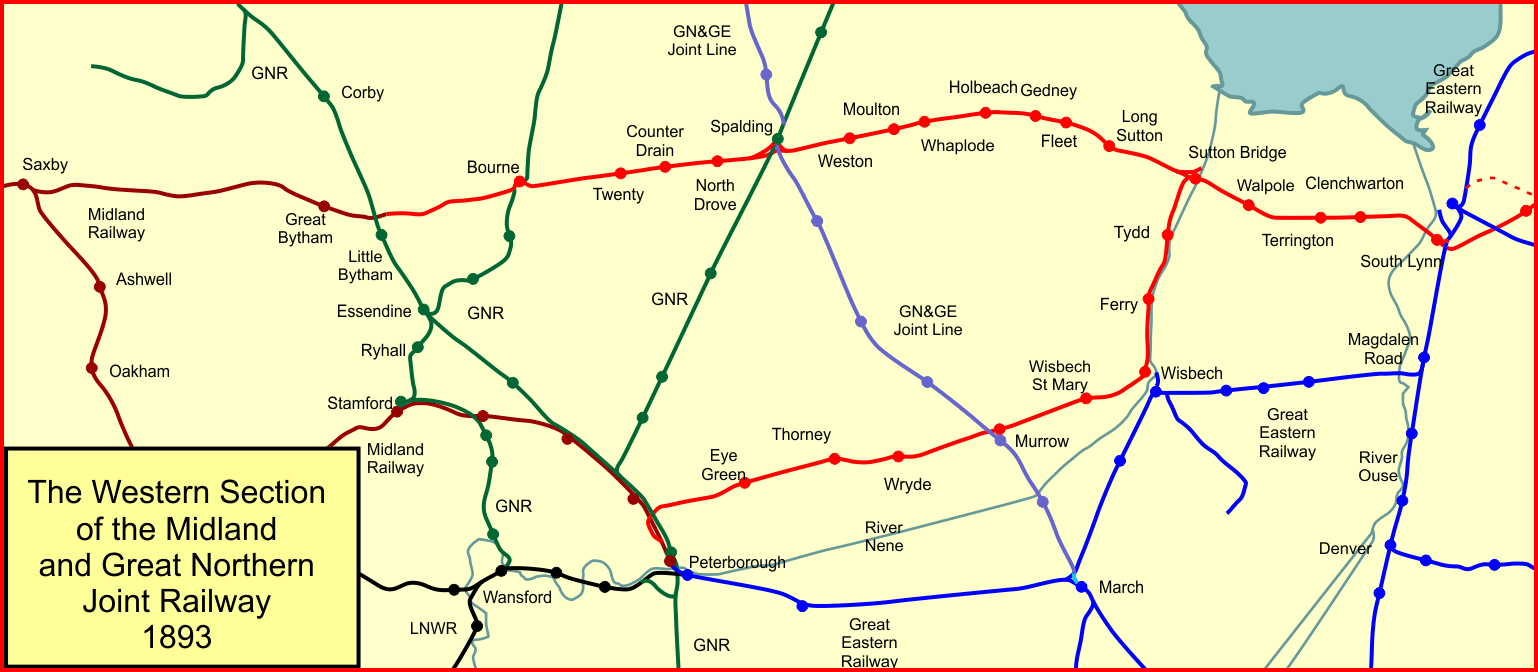 System map of the western part of the Midland and Great Northern Joint Railway, England, in 1893